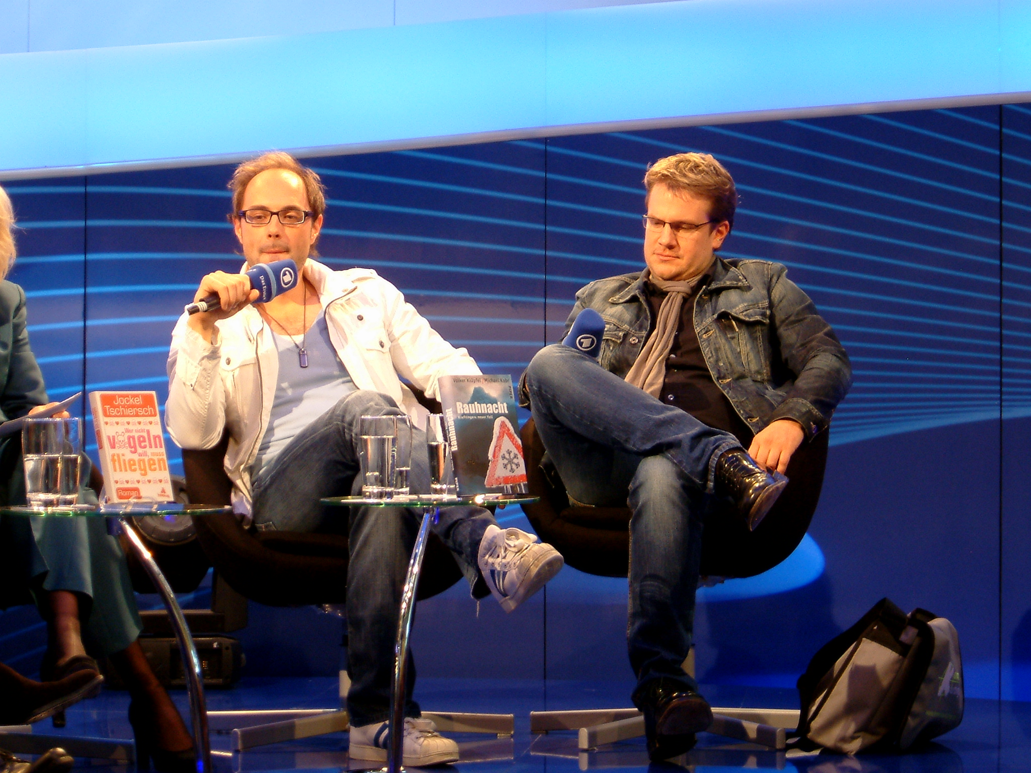 The authors Michael Kobr and Volker Klüpfel during an interview at the Frankfurt Book Fair 2009. I took this snapshot sitting in the audience.